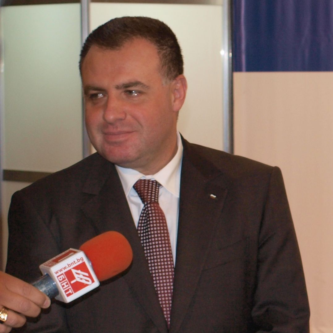 The Bulgarian minister of agriculture and foods - Miroslav Naidenov.